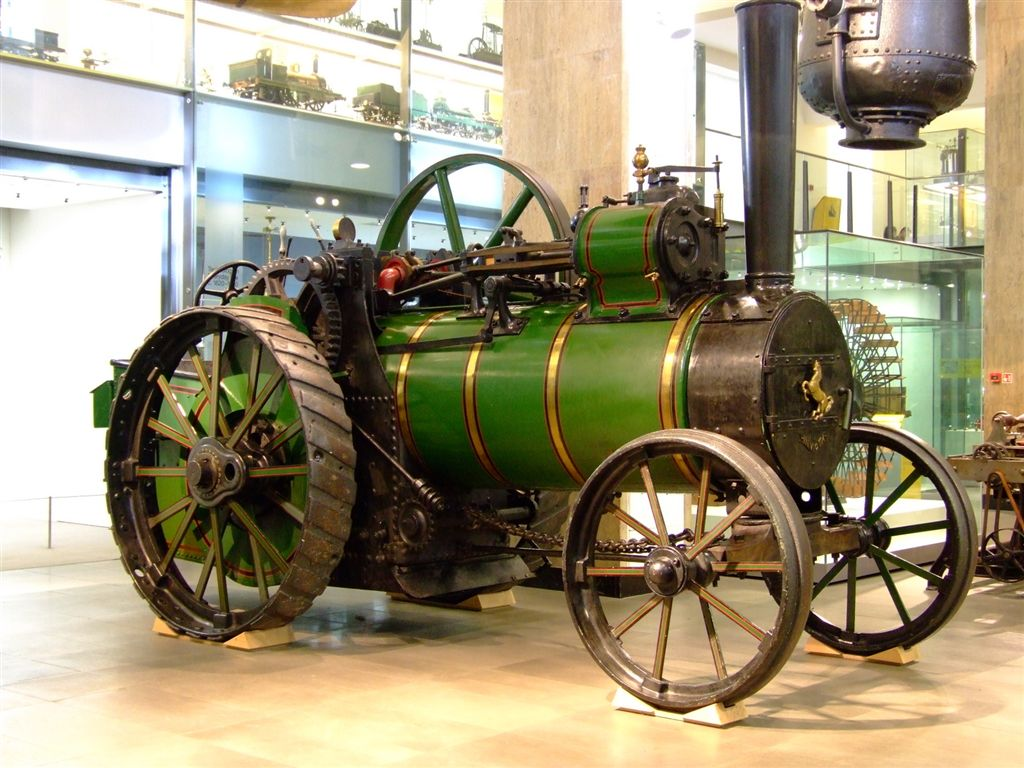 Aveling Traction Engine at the Science Museum (London).Additional Note: This engine no. 721 is the oldest surviving Aveling engine in the UK from 1871.